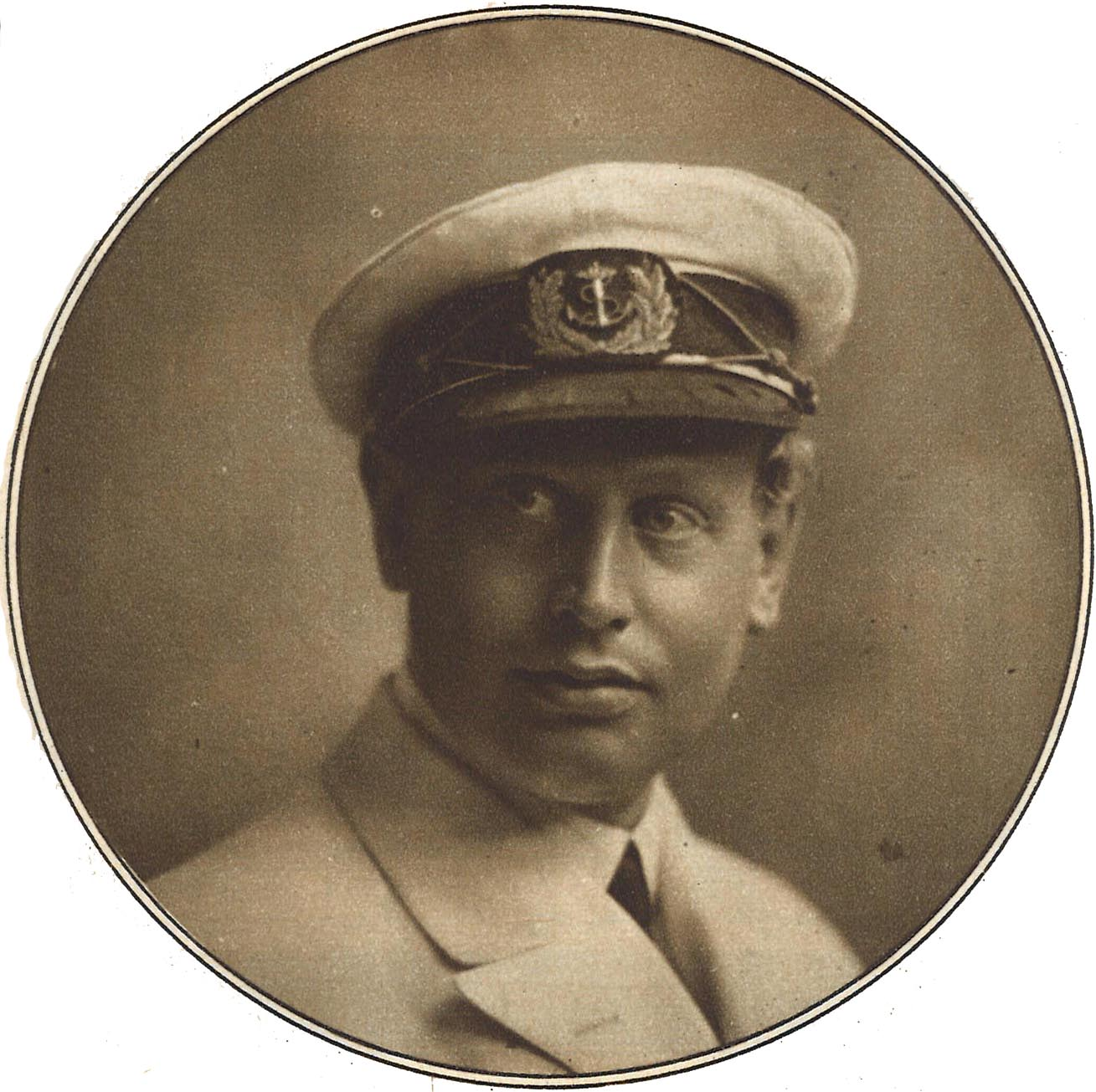 Swedish actor and comedian Thor Modéen as the main character in the play Styrman Karlssons flammor at Södra Teatern in 1925.